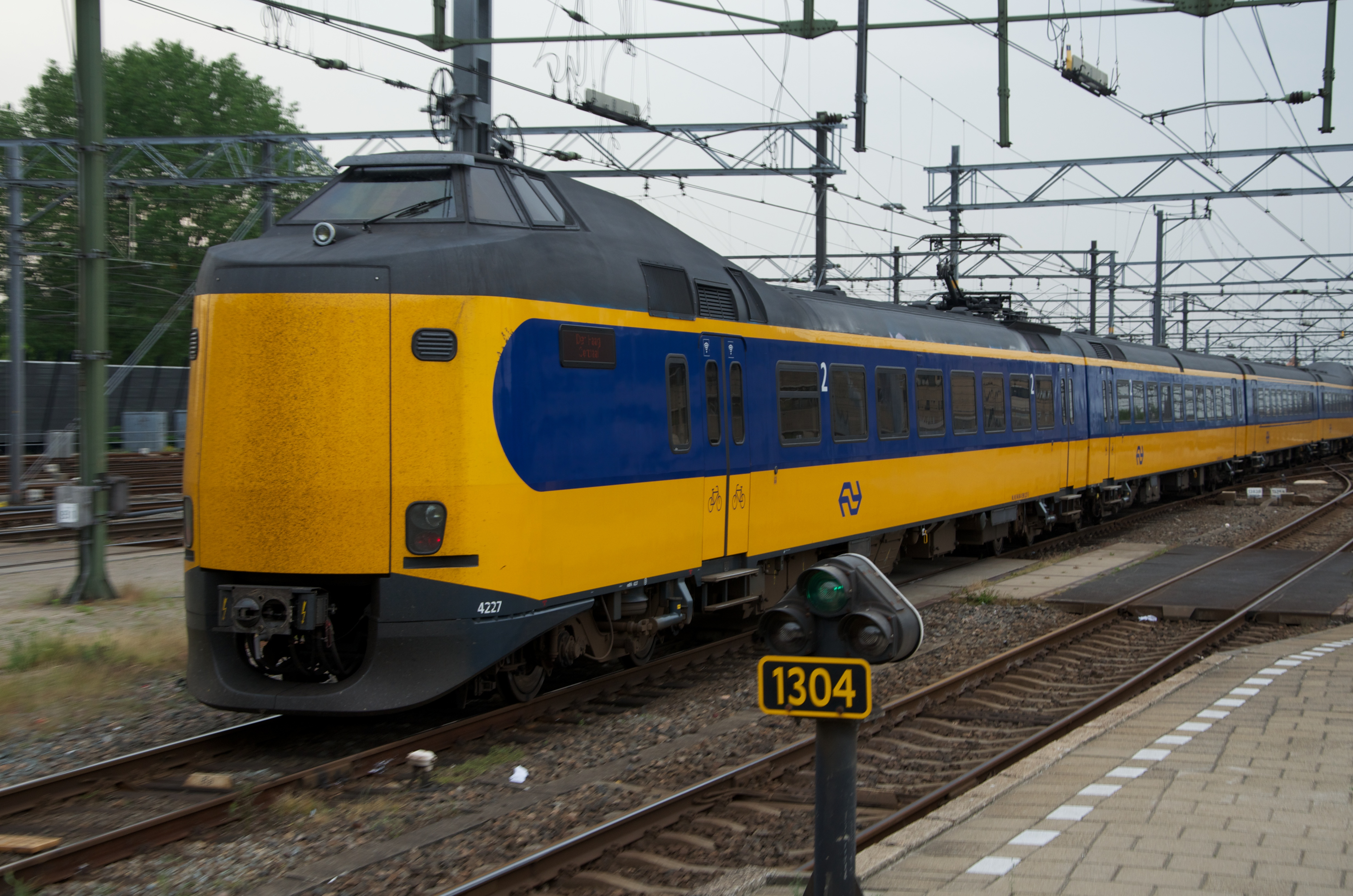 NS ICM leaving Utrecht Central Station, towards The Hague Central.